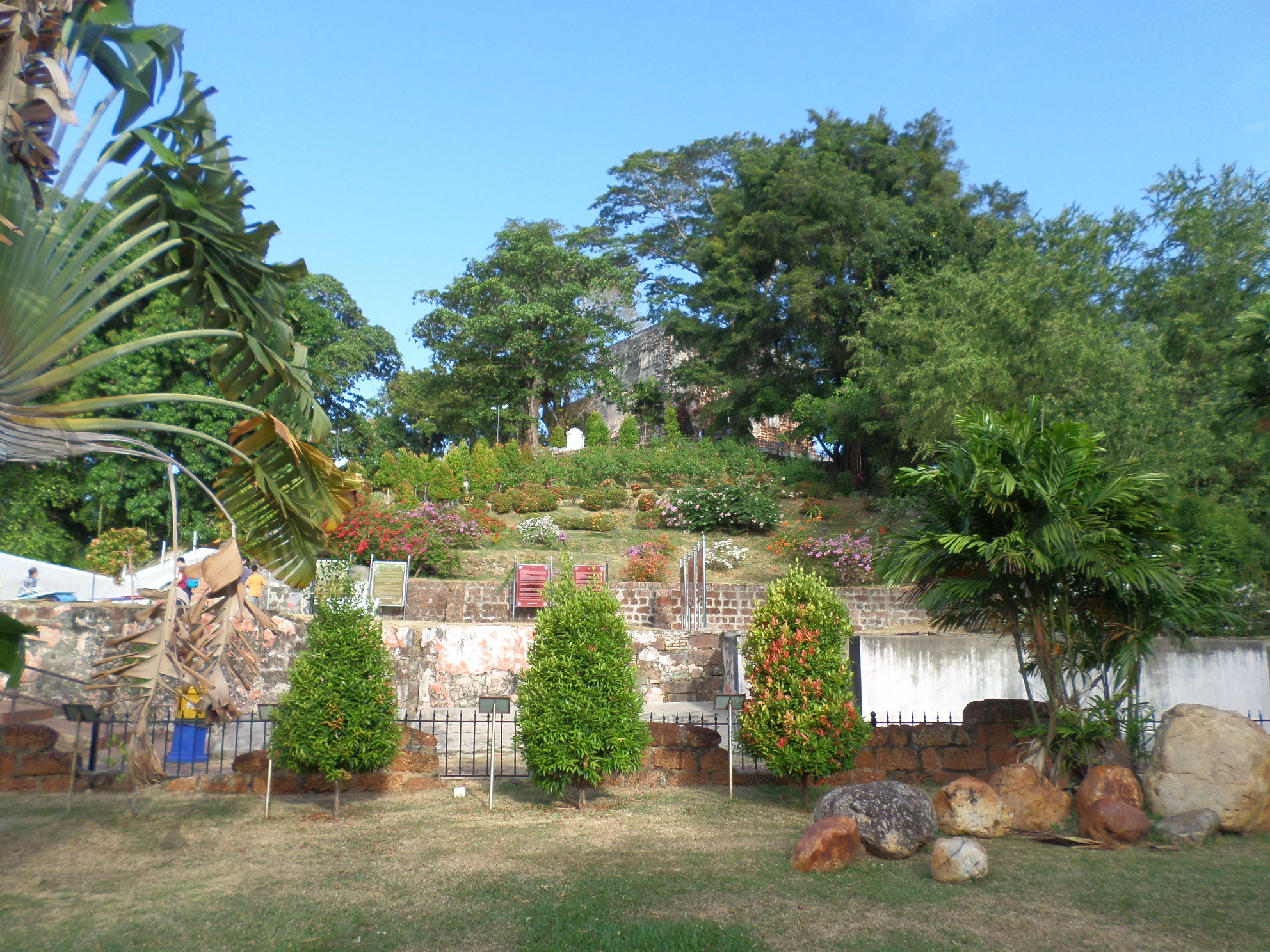 St. Paul's Hill, Central Malacca, Malacca, Malaysia